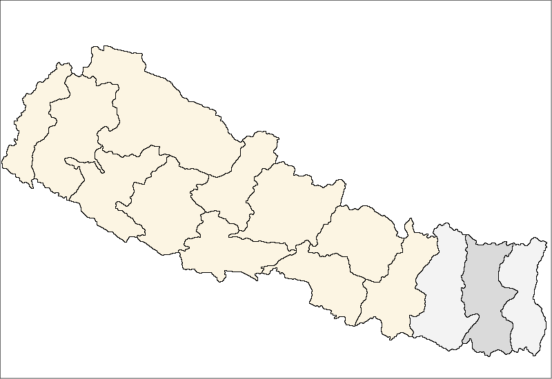 FrenchCarte de localisation de lazone de Koshi(wp-FR),au Népal (wp-FR).EnglishLocation map ofKoshi Zone(wp-EN),in Nepal (wp-EN).